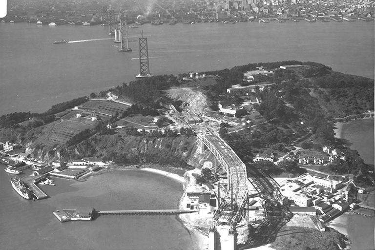 Closeup view taken by the airship USS Akron of Yerba Buena Island to document progress of the construction of the San Francisco Oakland Bay Bridge. U.S. Navy photograph dates from mid July 1935.